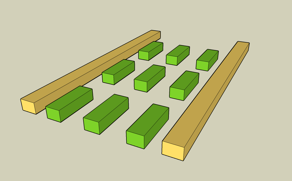 Room and pillar